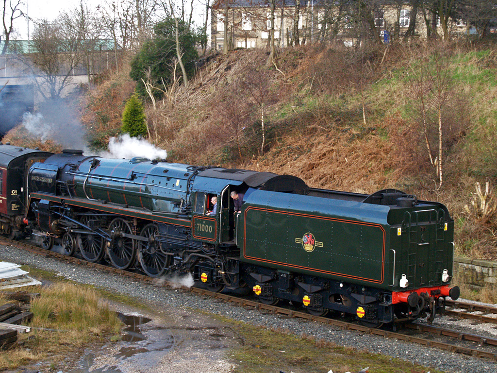 71000 Steam Locomotive Trust Limited's former British Railways Riddles ?Standard? 8P 4-6-2 locomotive number 71000 DUKE OF GLOUCESTER of Bury MPD at Bury South on the Down Main line on the East Lancashire Railway with the 13:00 Rawtenstall to Heywood (1J64). Sunday 25th January 2009